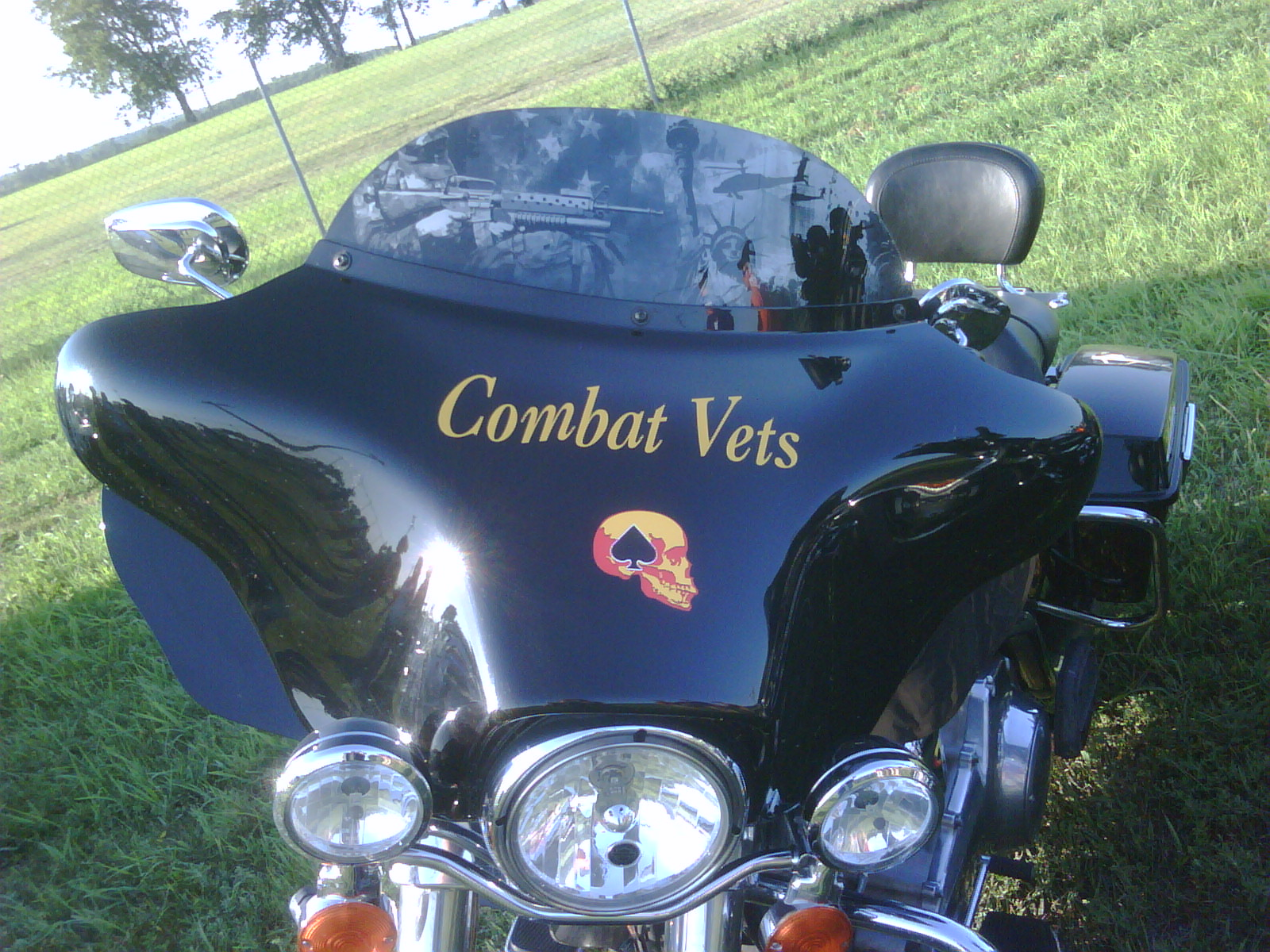 CVMA members bike with creative personal design